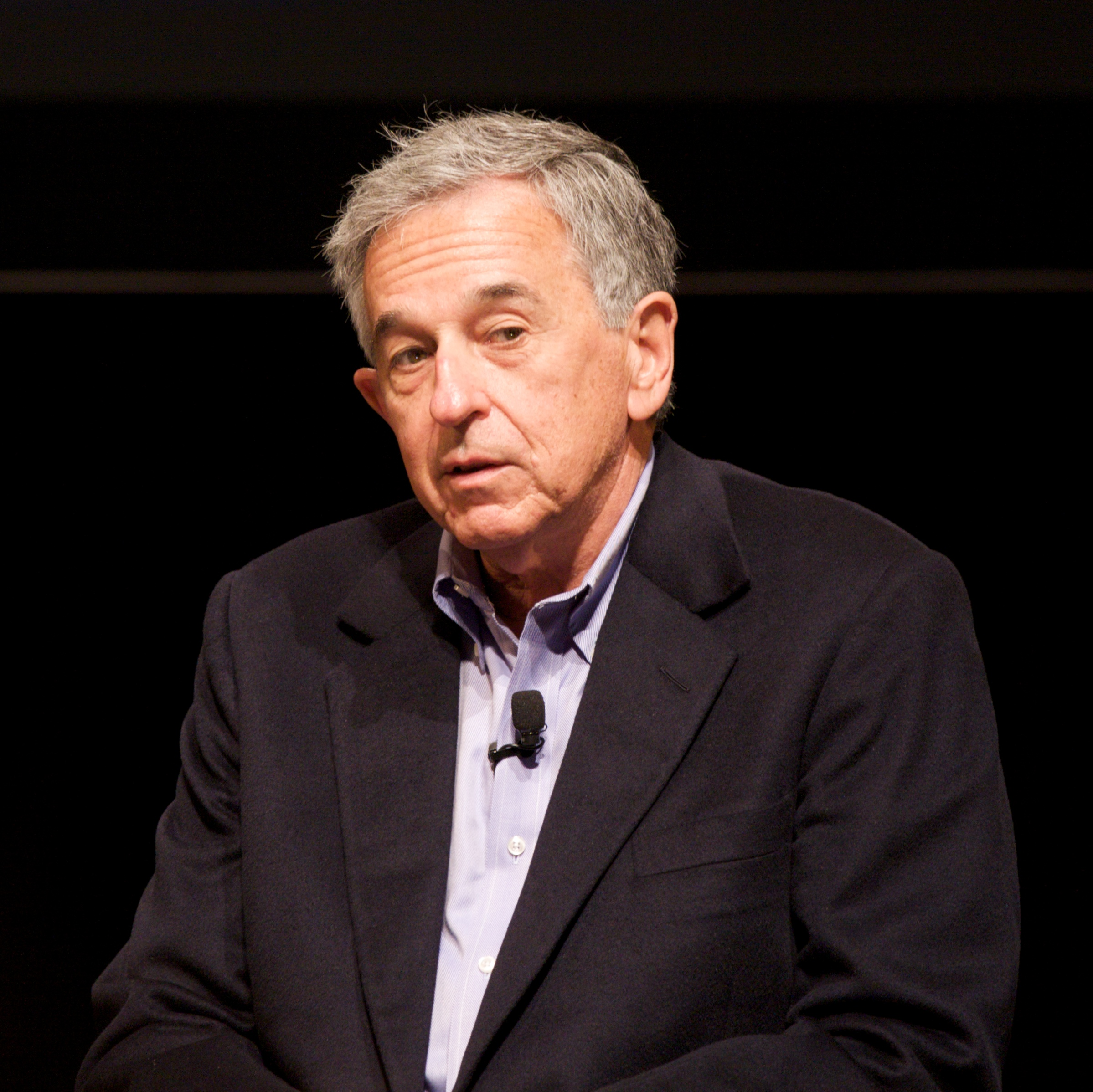 Jeff Rulifson